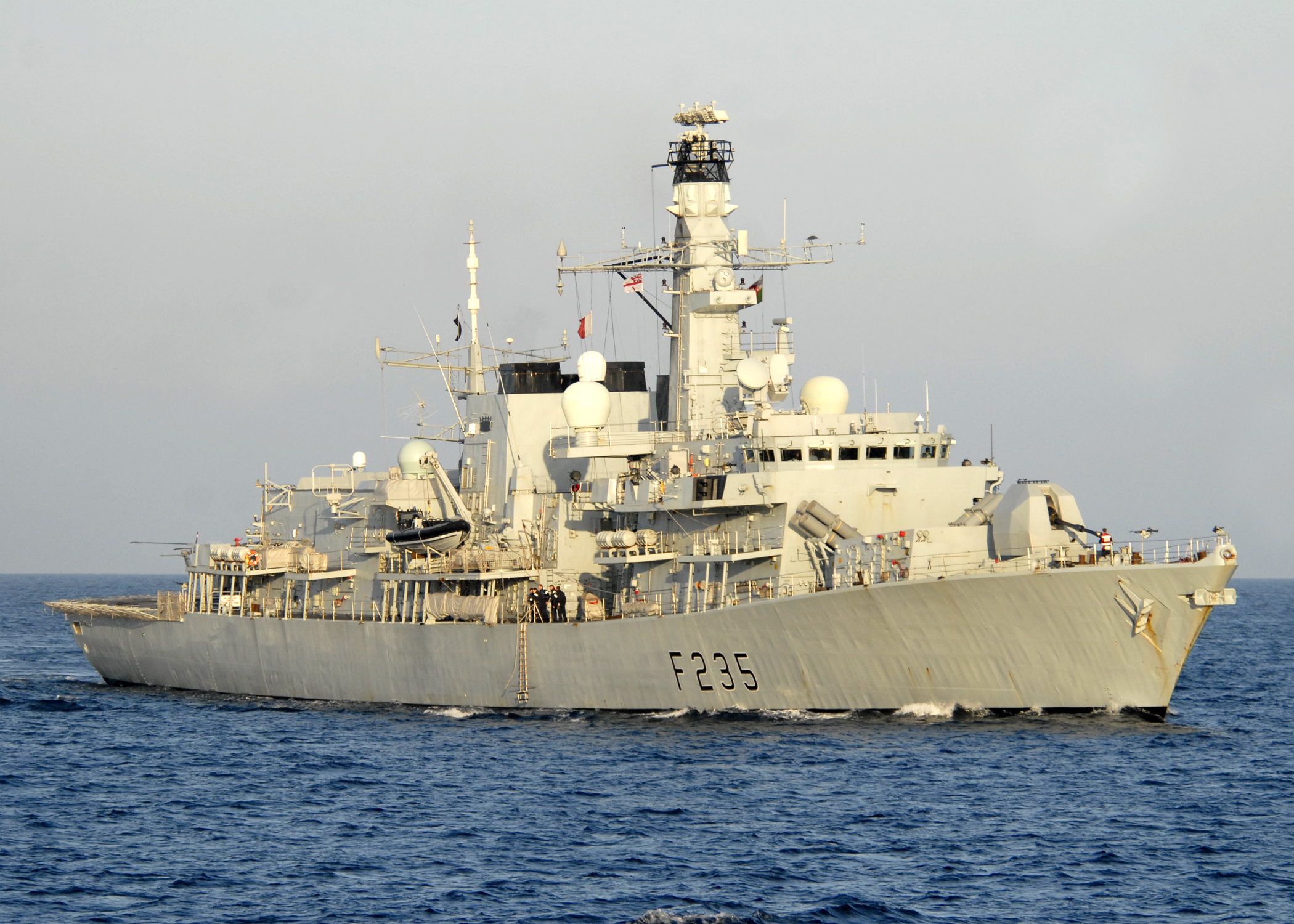 ATLANTIC OCEAN (Oct. 11, 2010) The Royal Navy frigate HMS Monmouth (F-235) transits the northeastern Atlantic Ocean during Joint Warrior 10-2. Joint Warrior is a multinational exercise designed to improve interoperability between allied navies and prepare participating crews to conduct combined operations during deployment. (U.S. Navy photo by Mass Communication Specialist Seaman Anna Wade/Released)